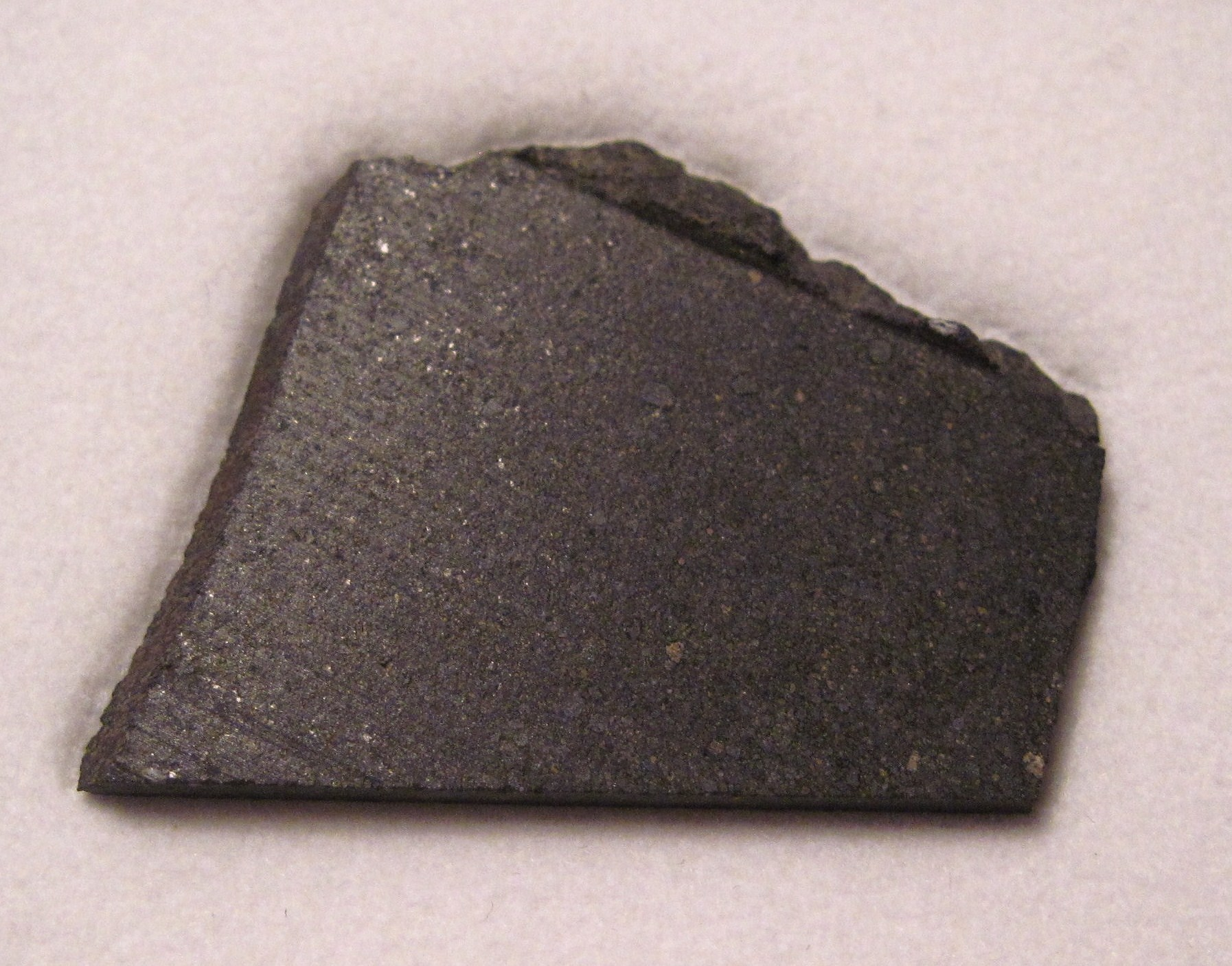 Kainsaz, a CO3.2 carbonaceous chondrite, fell on September 13, 1937, in Tatarstan, Russia. This partial slice has fusion crust along 2 edges and weighs 4.04 grams.